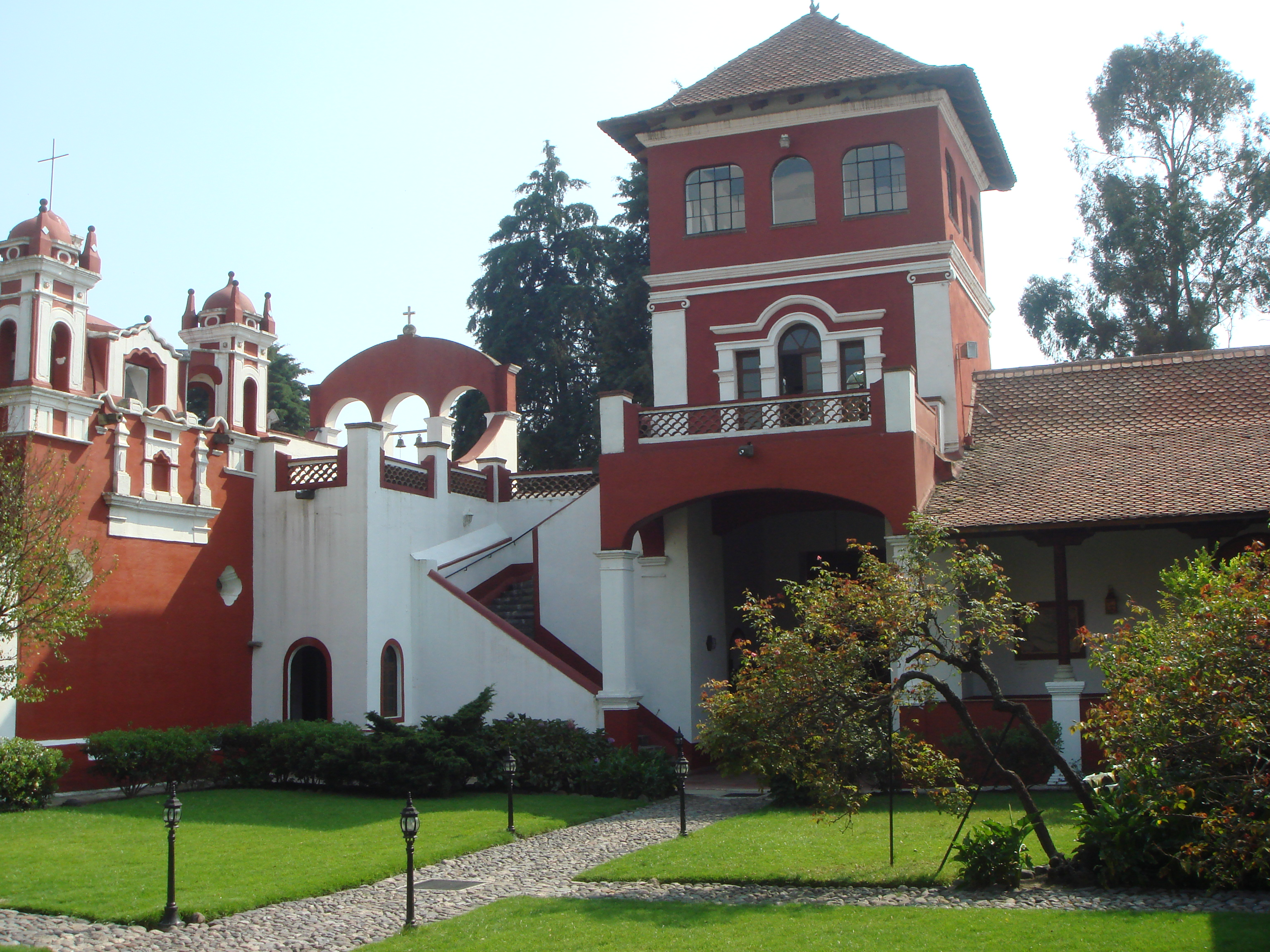 This picture shows Sor Juana Ines de la Cruz old house. She lived here until her 15 birthday.